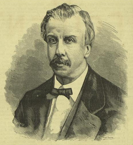 Joaquim Pedro de Sousa (1818-1878)